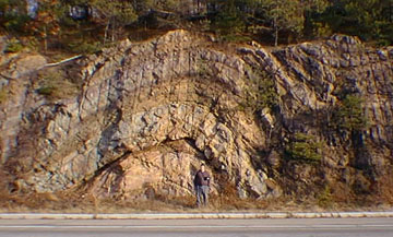 Anticline and syncline in layered Precambrian gneiss along NJ Route 23 near the rest area exit ramp (west of Butler, NJ). (at